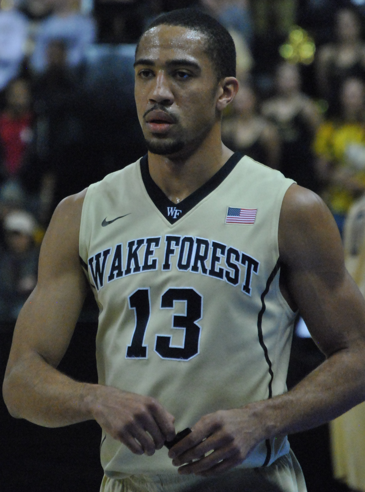 Coron Williams heads to the bench for a brief rest